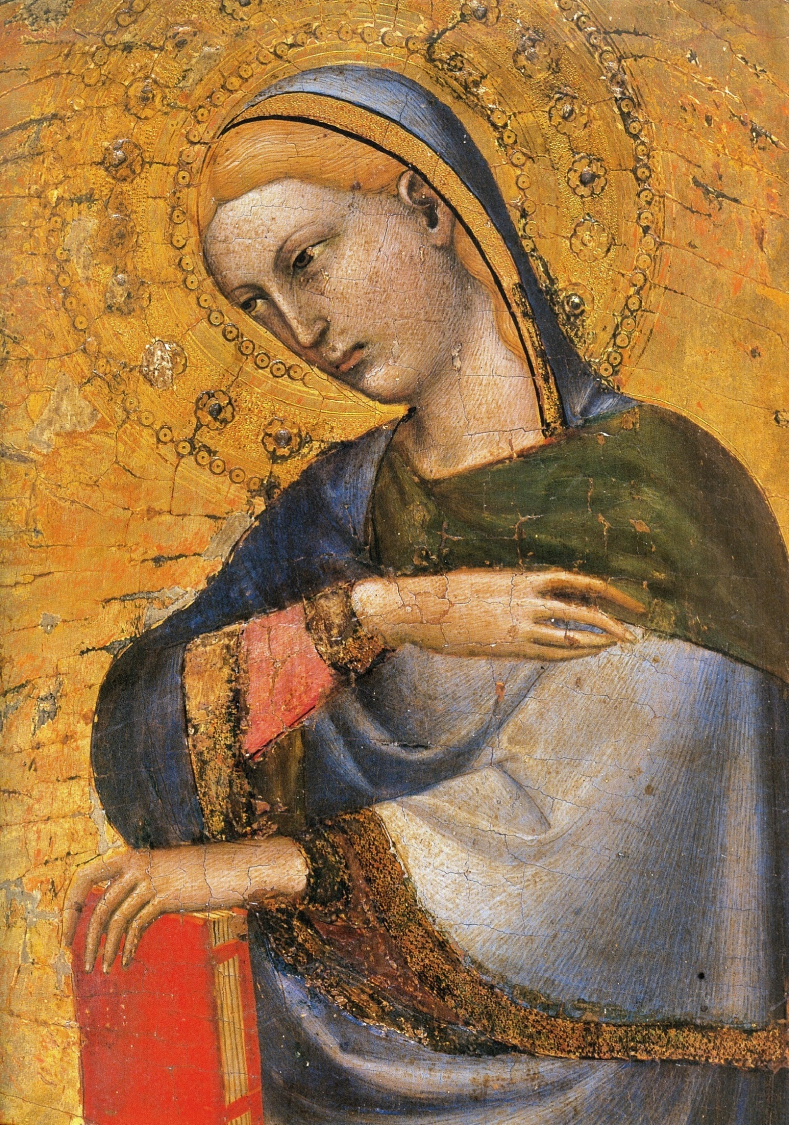 Giovanni da Milano. Pisan polyptych, detail. 1355-60, San Matteo, Pisa.